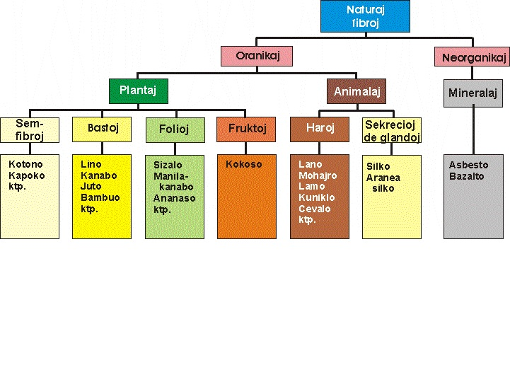 Grouping of natural fibres